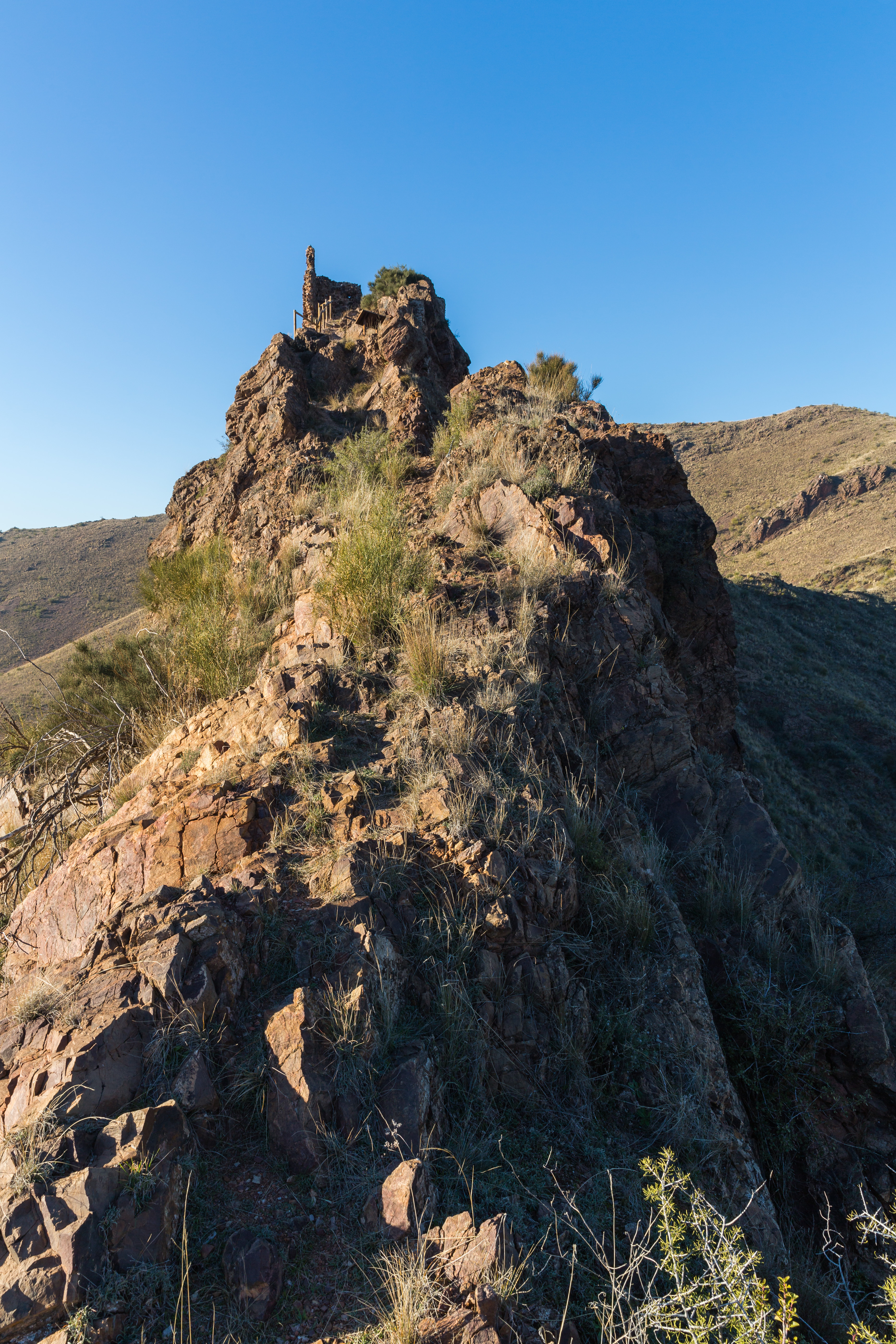 Castle of Villanueva del Jalón, Zaragoza, Spain